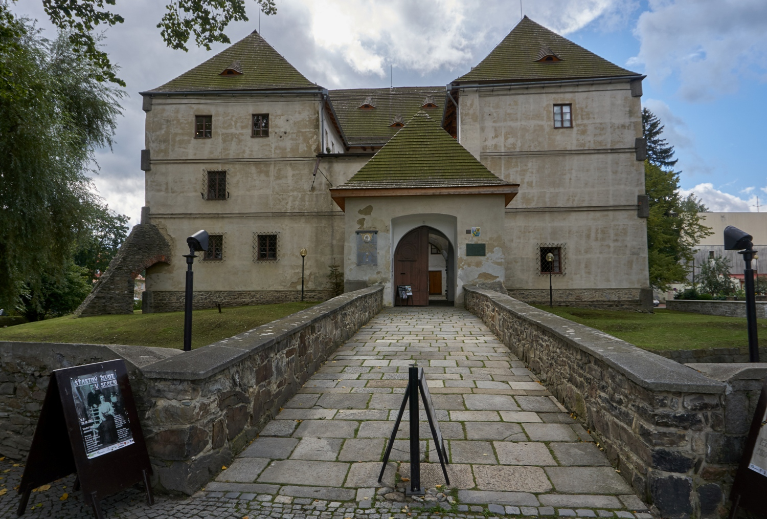 Water fort in Jesenik